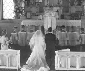 Family collection. No copyright.